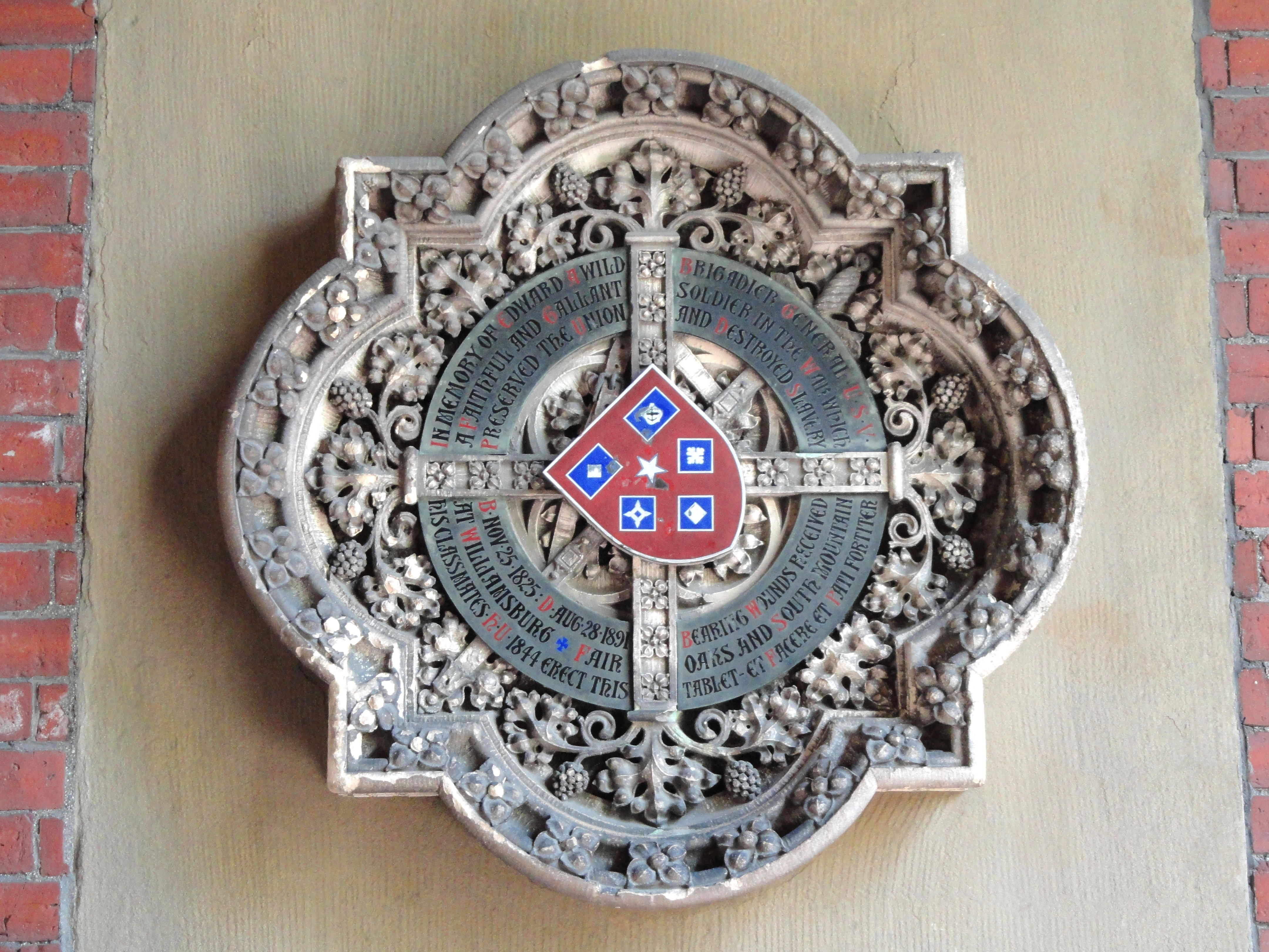 Edward A. Wild memorial, Memorial Hall, Harvard University, Cambridge, Massachusetts, USA.